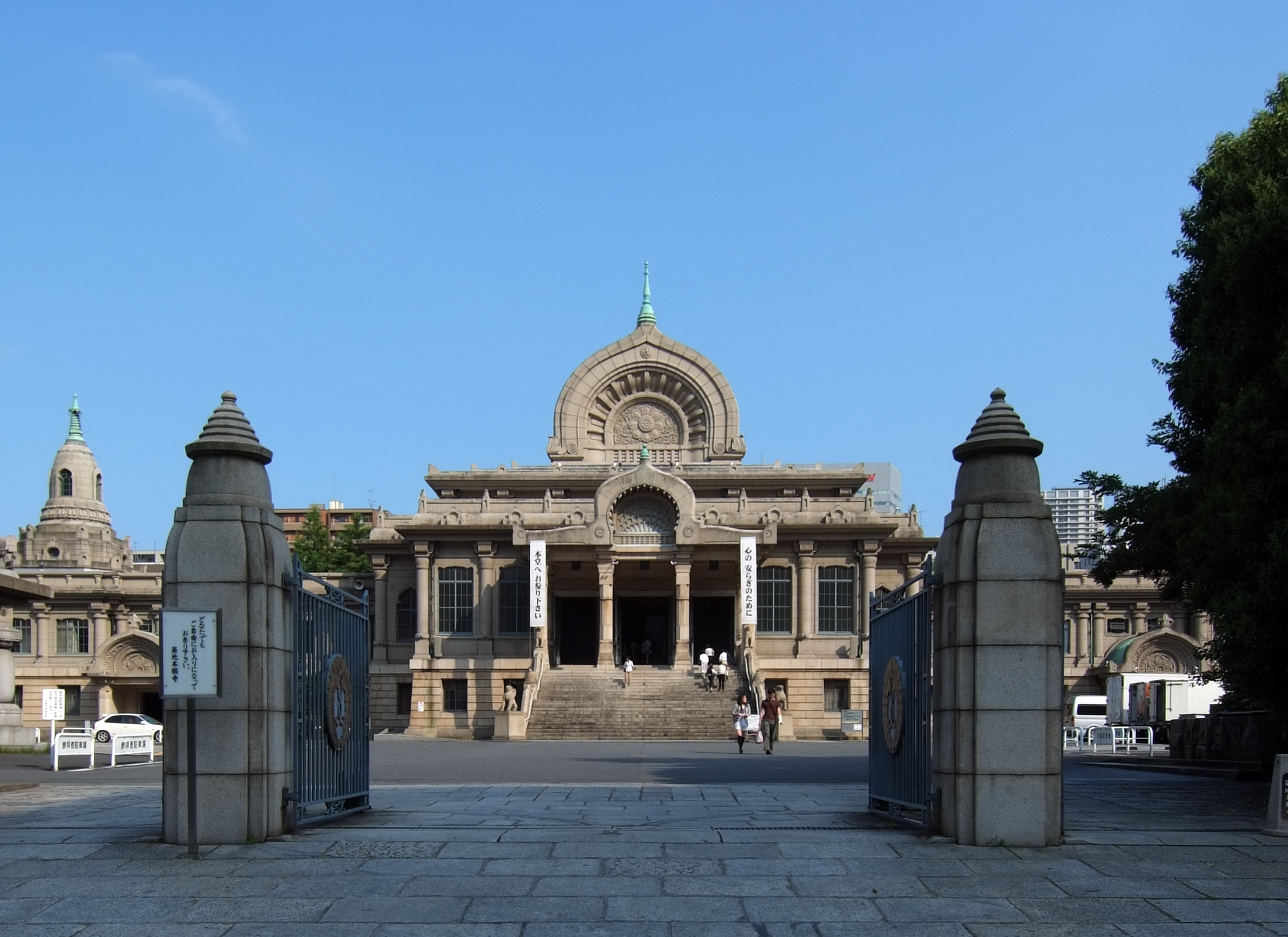 Tsukiji Hongan-ji is a Buddhist temple in Tsukiji, Chuo-ku, Tokyo, Japan.